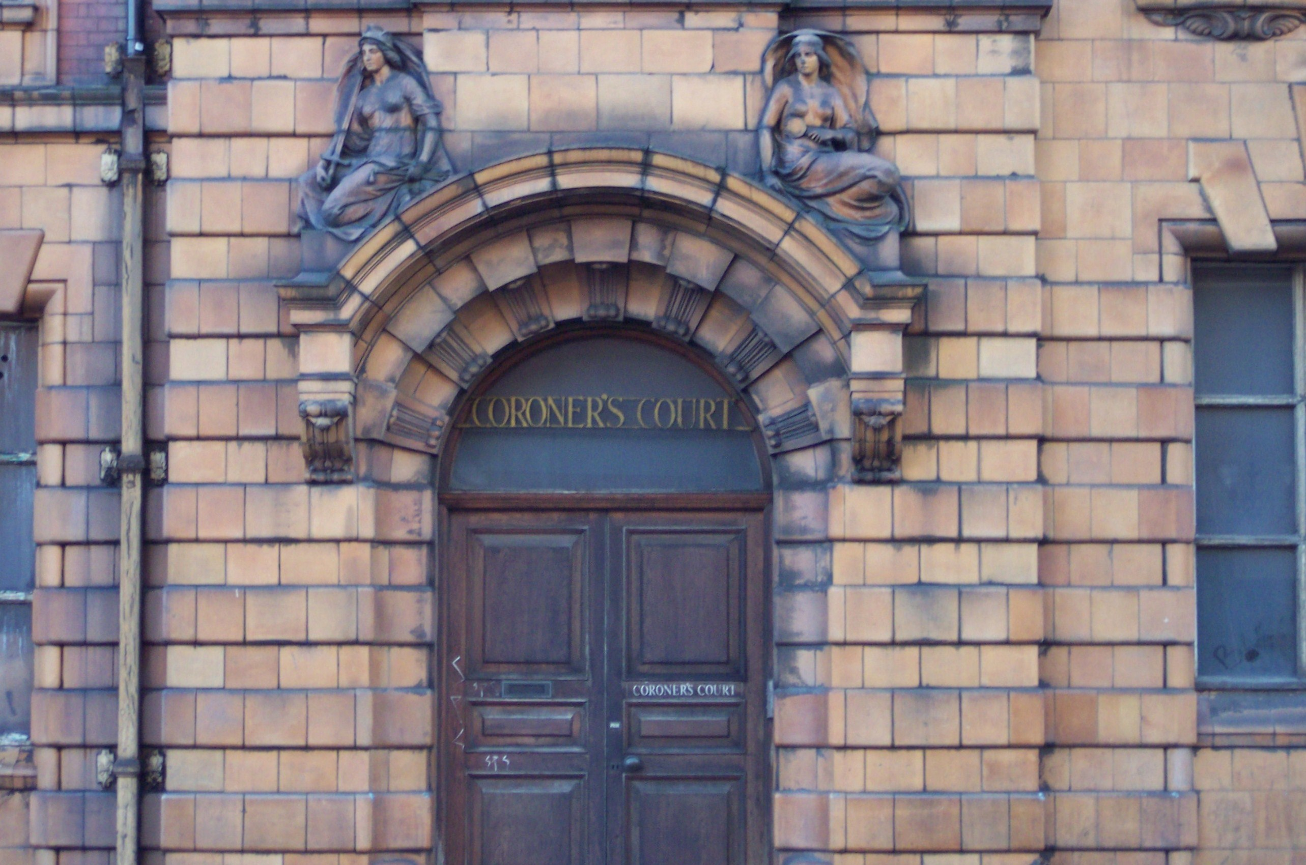 The entrance to the Coroner's Court at London Road Fire Station